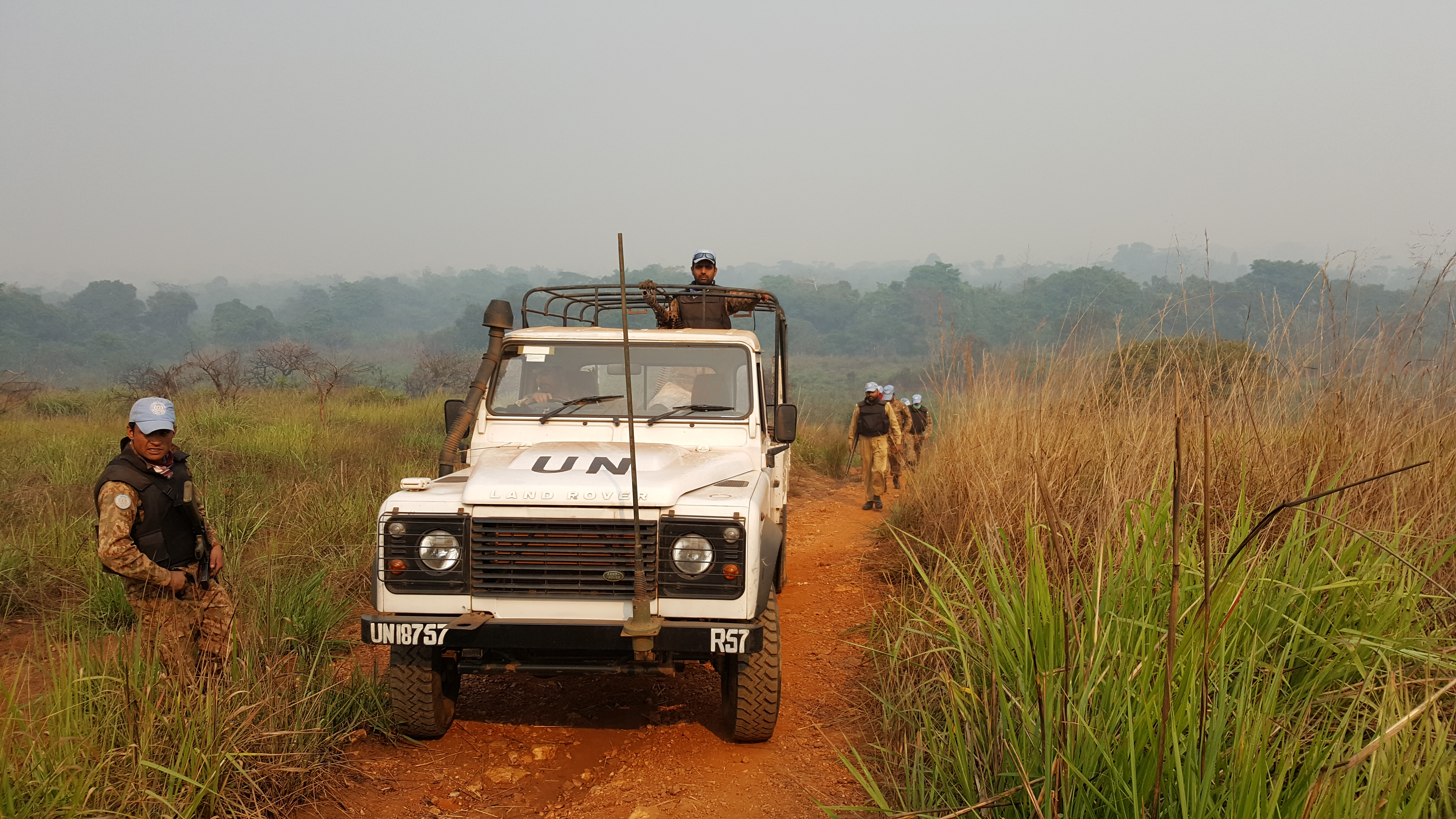 The Pakistani contingent of MONUSCO on patrol in Central Kasai, Democratic Republic of the Congo.